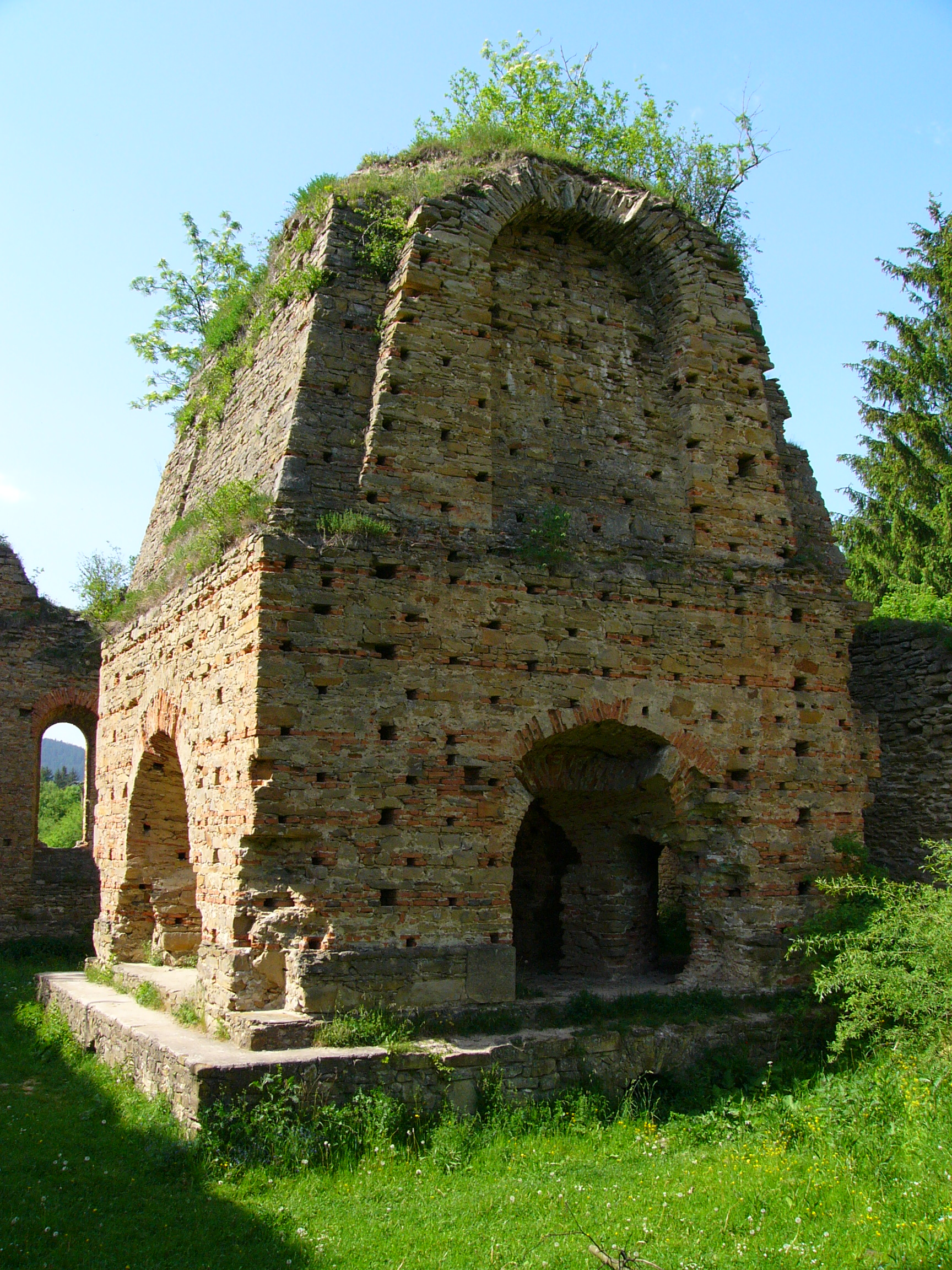 Františkova huta, furnace